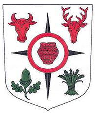 Banner of Wapse village